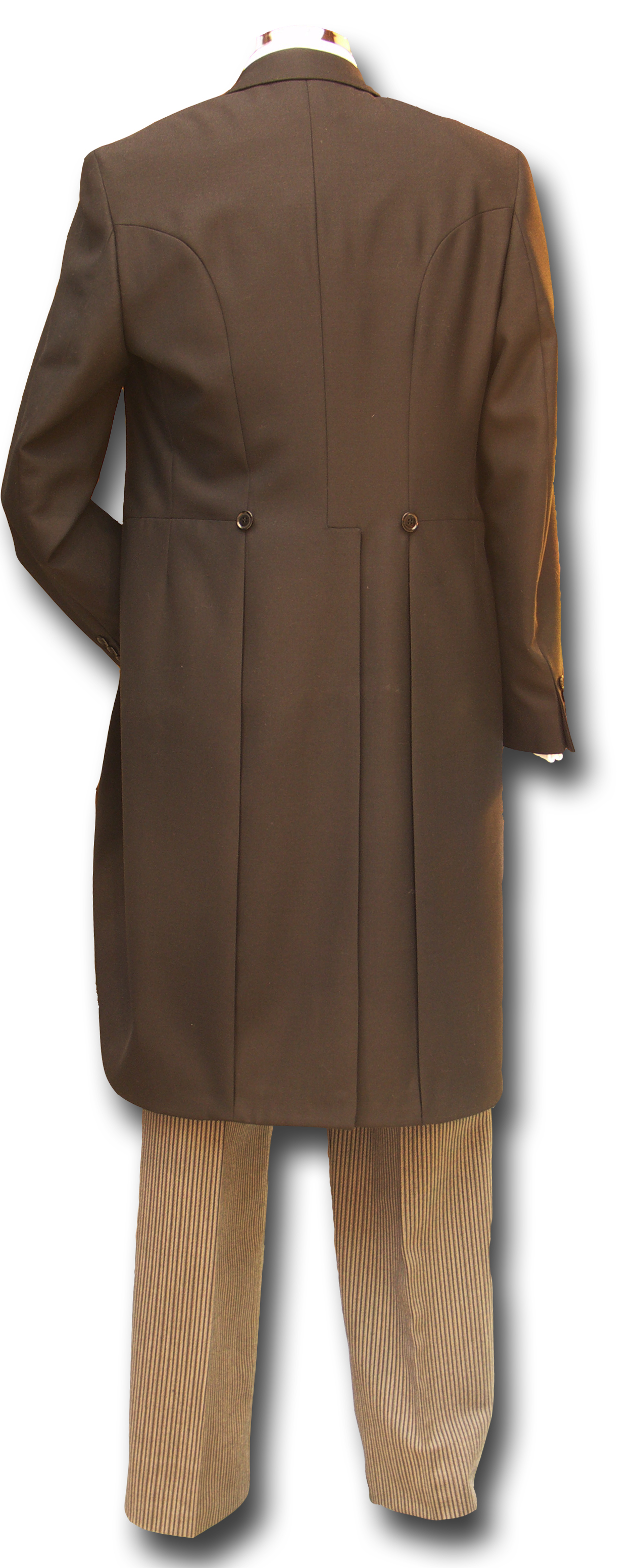 Frock-Coat of morning suit